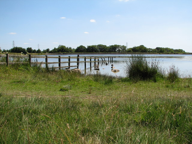 Pen-y -fan Pond. looking SSE